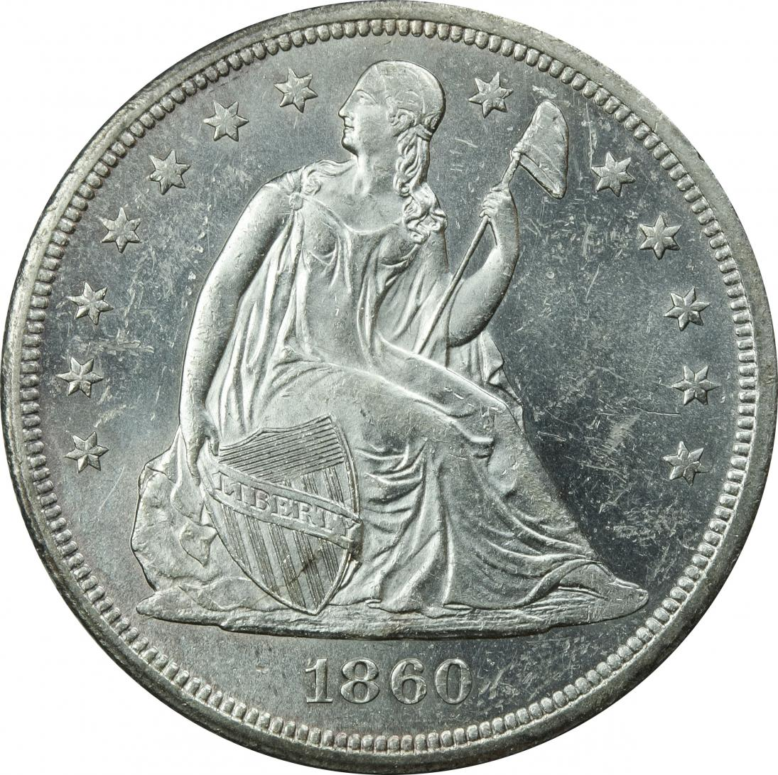 1860-O Seated Liberty dollar obverse